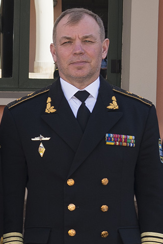 160226-N-OX801-038 NAVAL SUPPORT ACTIVITY NAPLES, Italy (Feb. 26, 2016) From left to right: Commander, NATO Allied Maritime Command, Royal Navy, Vice Adm. Clive Johnstone; Chief of Bulgarian Naval Operations, Rear Adm. Mitko Petev; Chief of Romanian Naval Forces Staff, Rear Adm. Alexandru Mirsu; Commander, U.S. 6th Fleet, Vice Adm. James Foggo III; Commander, U.S. Naval Forces Europe-Africa Adm. Mark Ferguson; Turkish Naval Forces Chief of Staff, Vice Adm. Gerhart Dulger; Commander, Ukrainian Navy, Vice Adm. Serhii Hajduk; Director of Georgian Coast Guard Department, Capt. Temur Kvantaliani; gather for a photo during the Black Sea Maritime Security Symposium, U.S. 6th Fleet headquarters, Feb. 26, 2016. Senior leaders from the maritime forces in the Black Sea region met in Naples, Italy, for the first Black Sea Maritime Security Symposium hosted by Commander, U.S. Naval Forces Europe Feb. 25-26, 2016. The intent of the symposium is to enhance regional cooperation by sharing insights and developing recommendations to address mutual maritime security concerns. (U.S. Navy photo by Mass Communication Specialist 2nd Class Daniel P. Schumacher/Released)